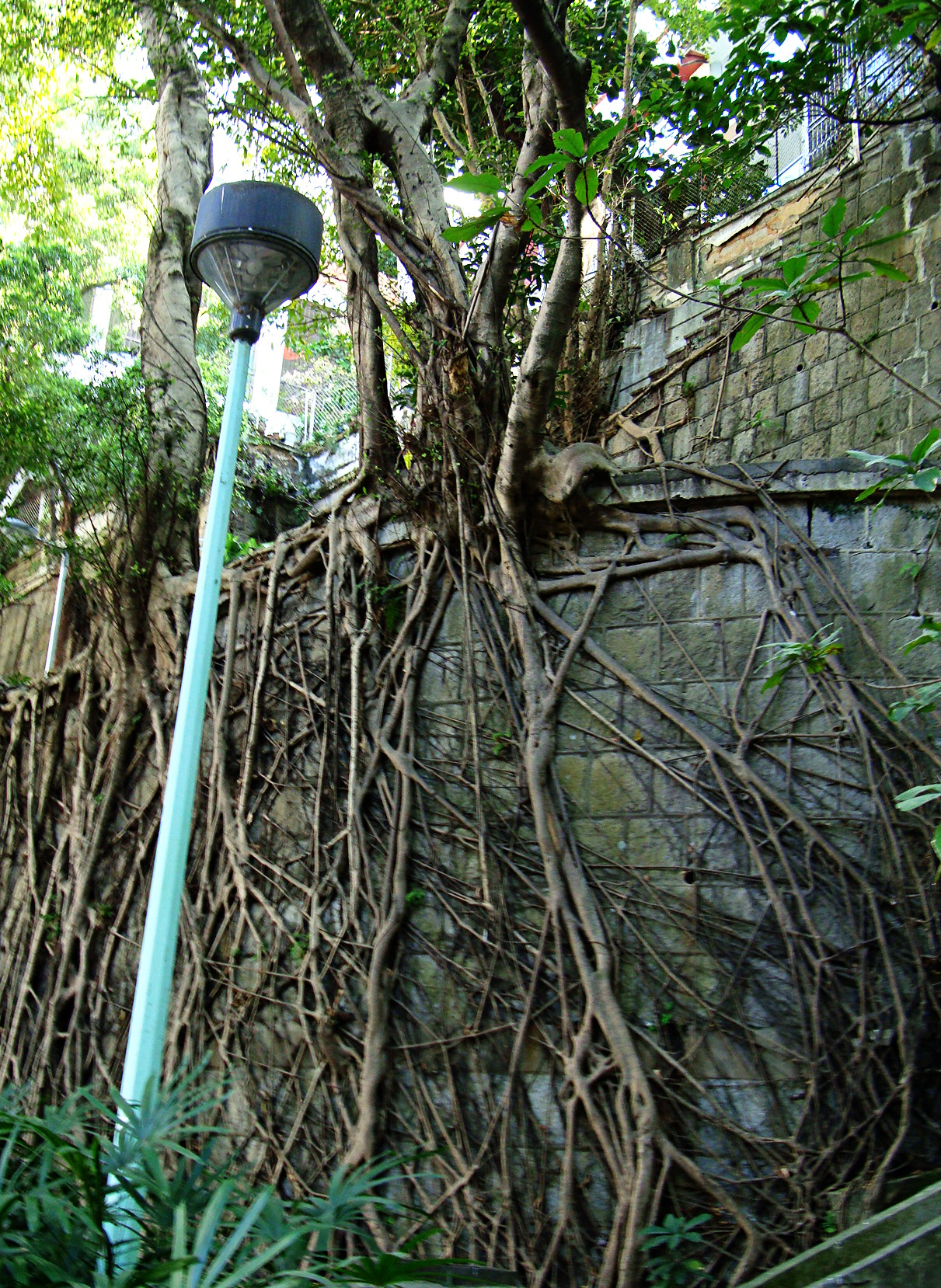 Roots of a tree